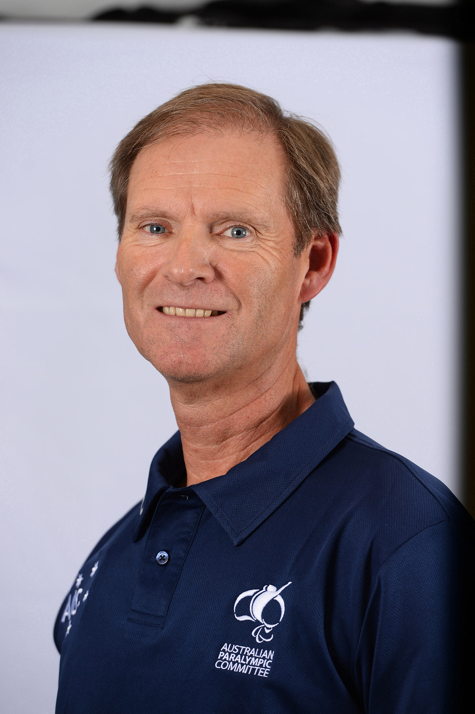 Portrait photograph of Colin Harrison taken at team processing session for shadow members of 2016 Australian Paralympic team